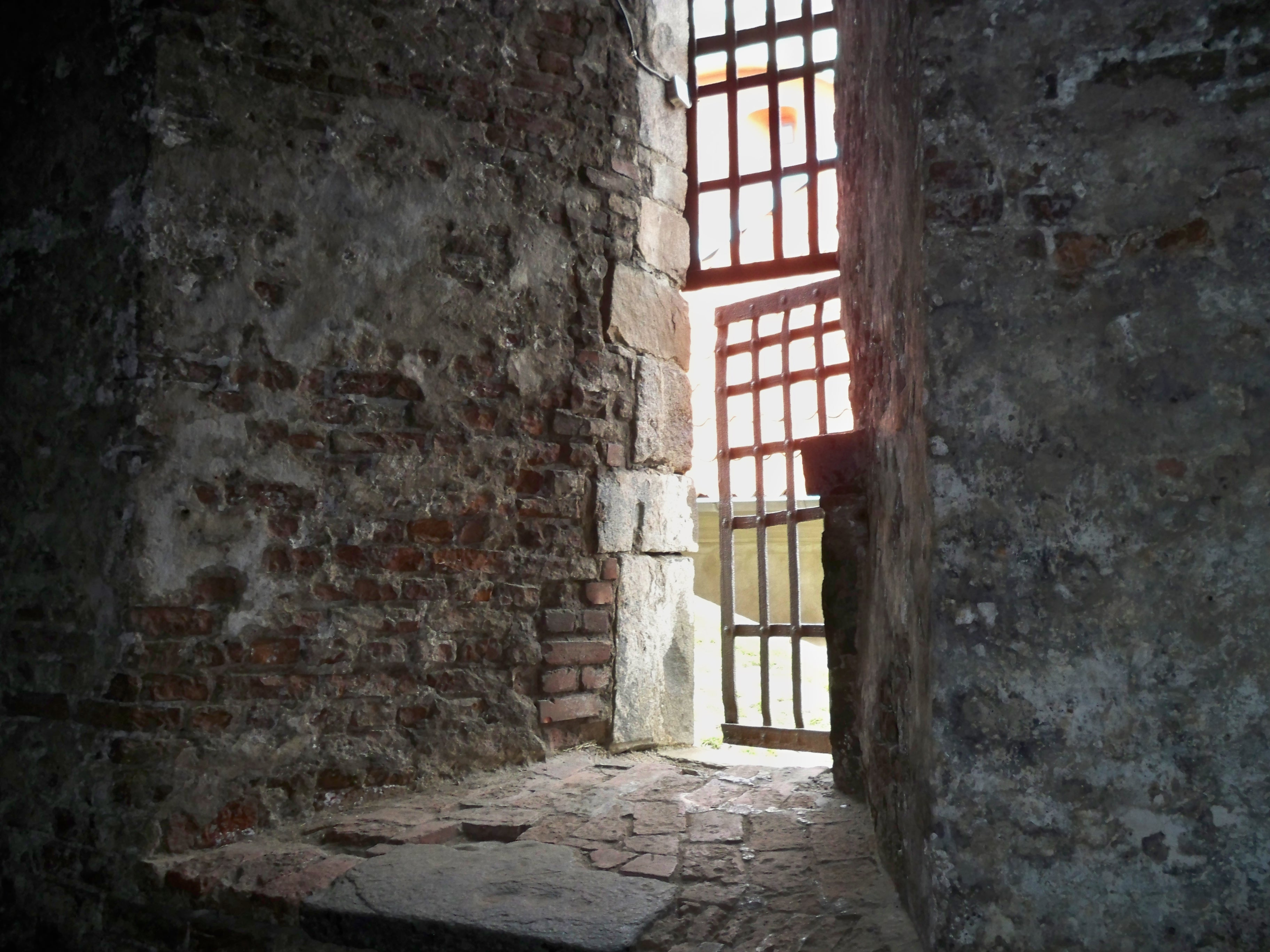 A window in the 18th century dungeon of New Fort of Elfsborgh